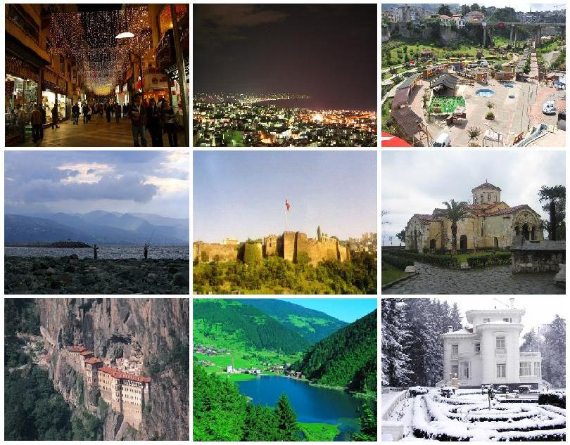 Trabzon Photos